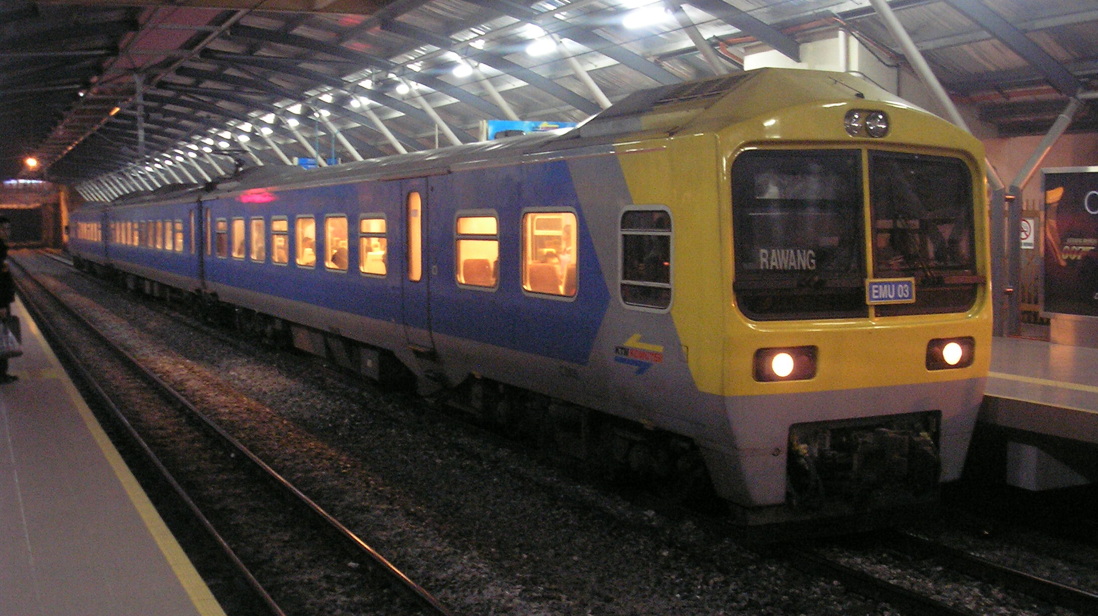 A class 81 KTM Komuter electric train (Jenbacher Transport System/HOLEC, Austria/Holland) (Designation: EMU 03) at the Mid Valley Komuter station, Kuala Lumpur, Malaysia.